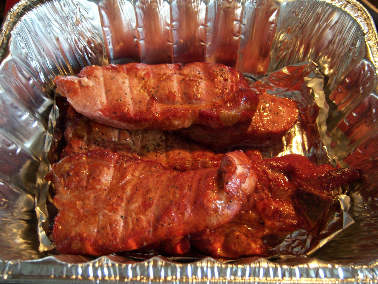 These are smoked "country style" pork ribs, which are the big meat steak like cuts. Some have bones, some don't.